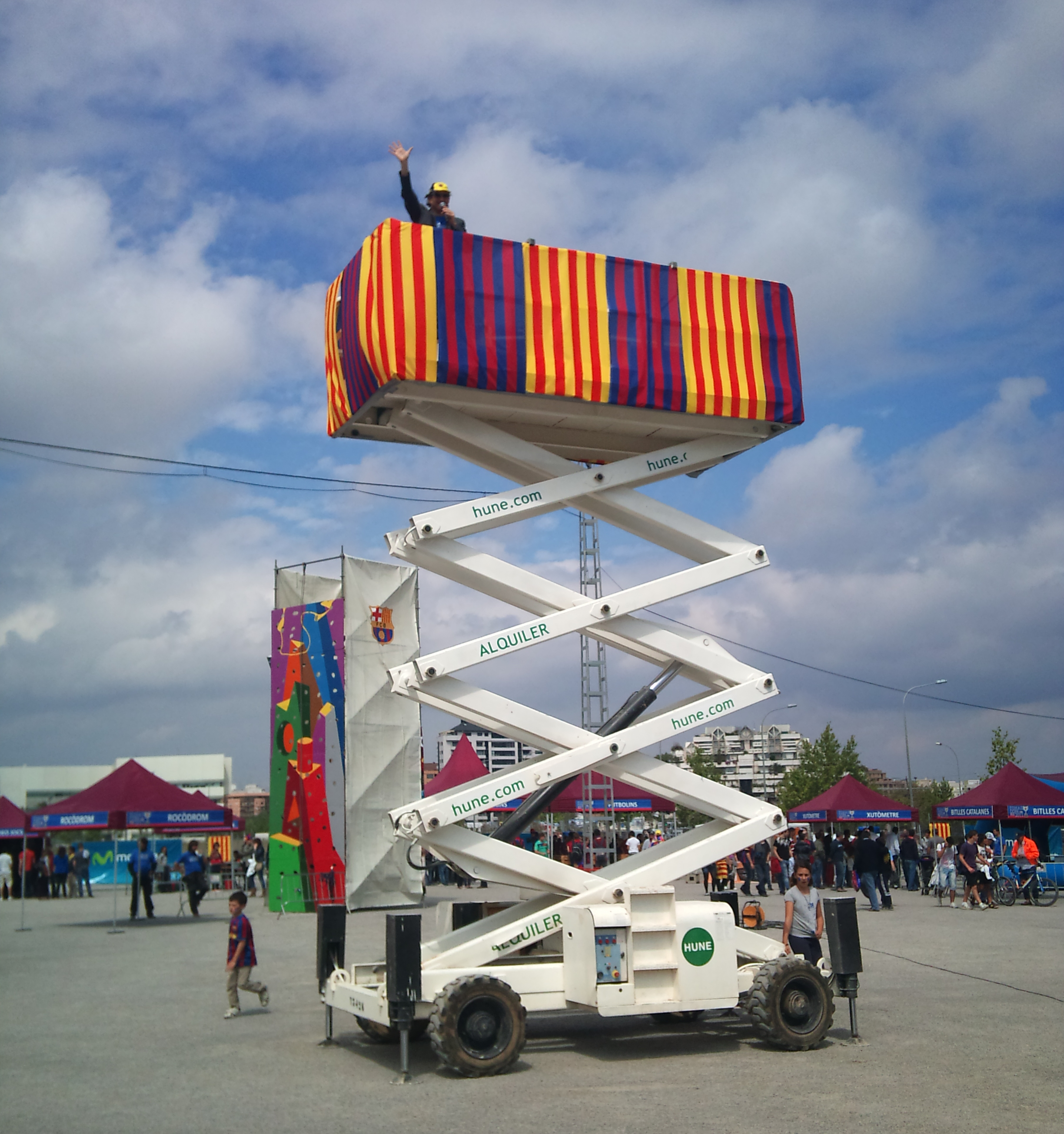 FC Barcelona's Fan Zone for the 2011 Copa del Rey's final.